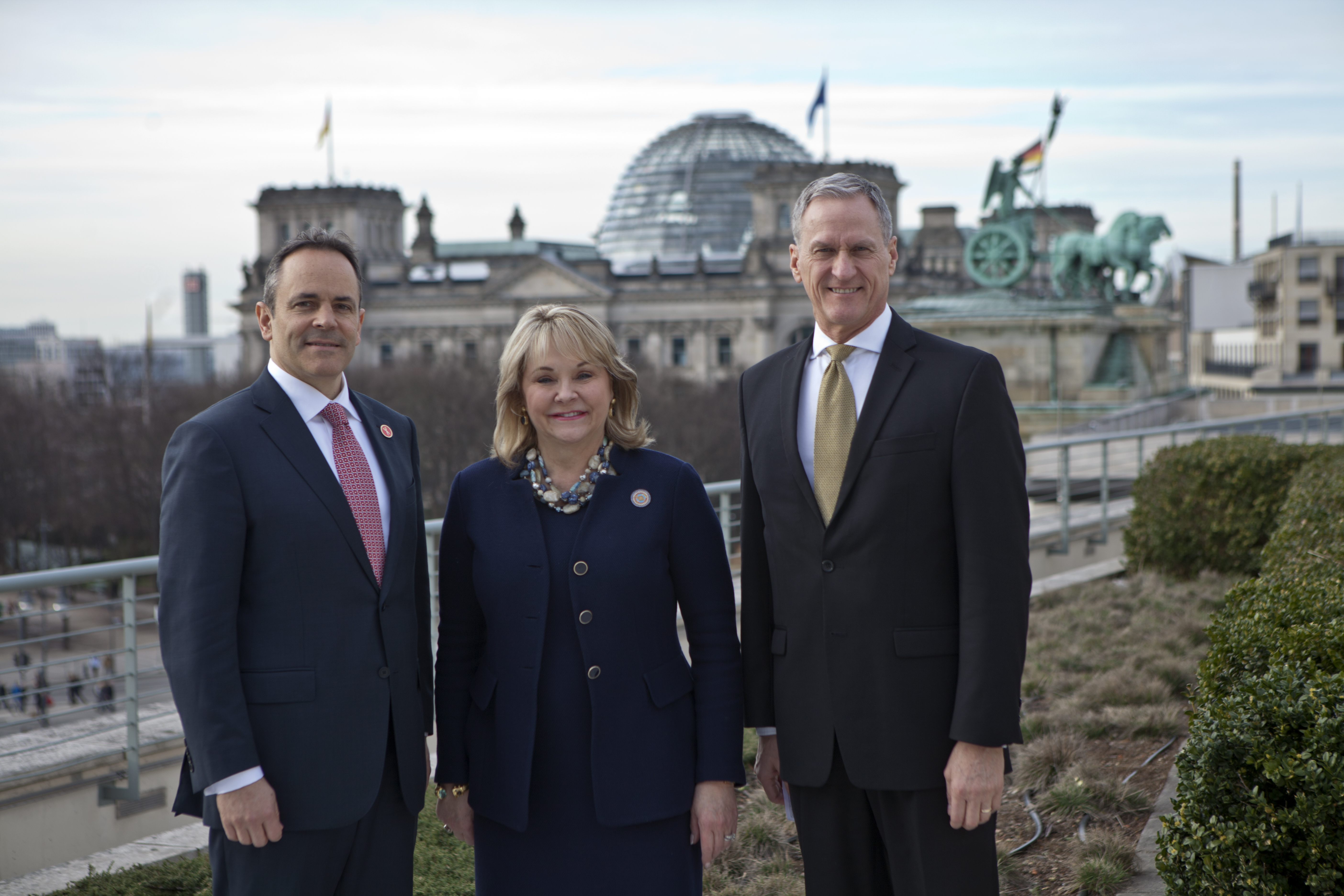 Governors Matt Bevin of Kentucky, Mary Fallin of Oklahoma and Dennis Daugaard of South Dakota visiting the Embassy of the United States in Berlin. The Reichstag building and the Brandenburg Gate can be seen in the background.